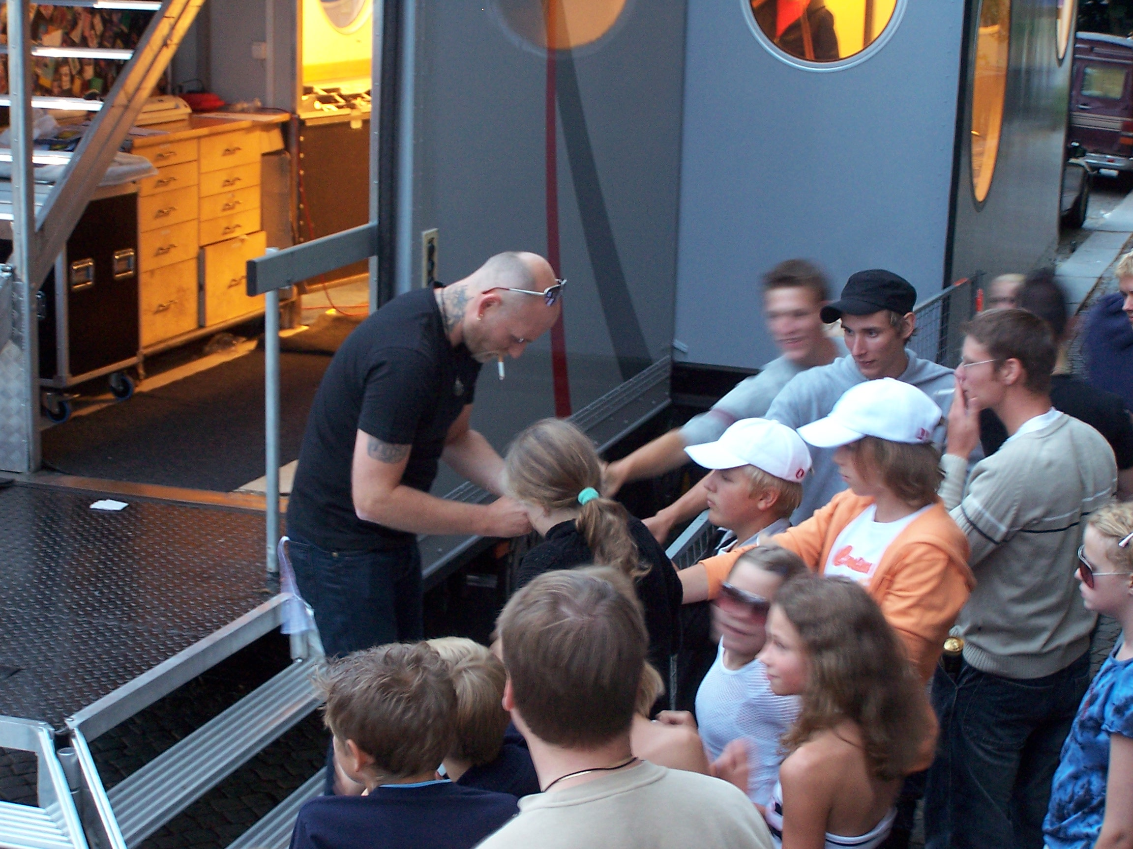 Håkan Hemlin in Nordman signing autographs before performance in Karlskrona, Sweden during "TV4 Stadskampen".